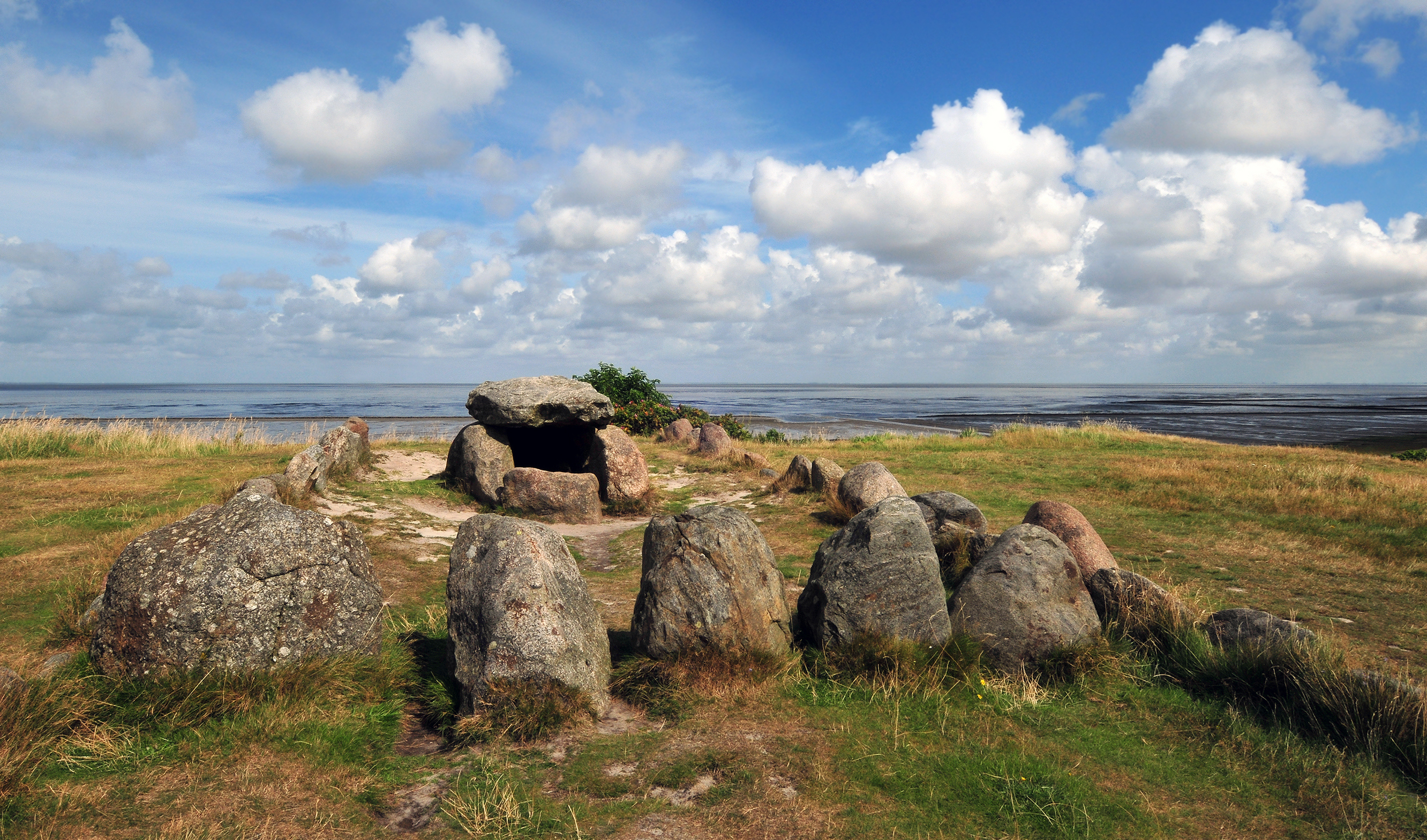 Megalithic grave Harhoog located in Keitum on the island of Sylt in Schleswig-Holstein, Germany. The Harhoog is an extended dolmen, a type of megalithic tomb. It was built by the Funnelbeaker culture, probably around 3000 BC. It has been moved from its original location 1954.